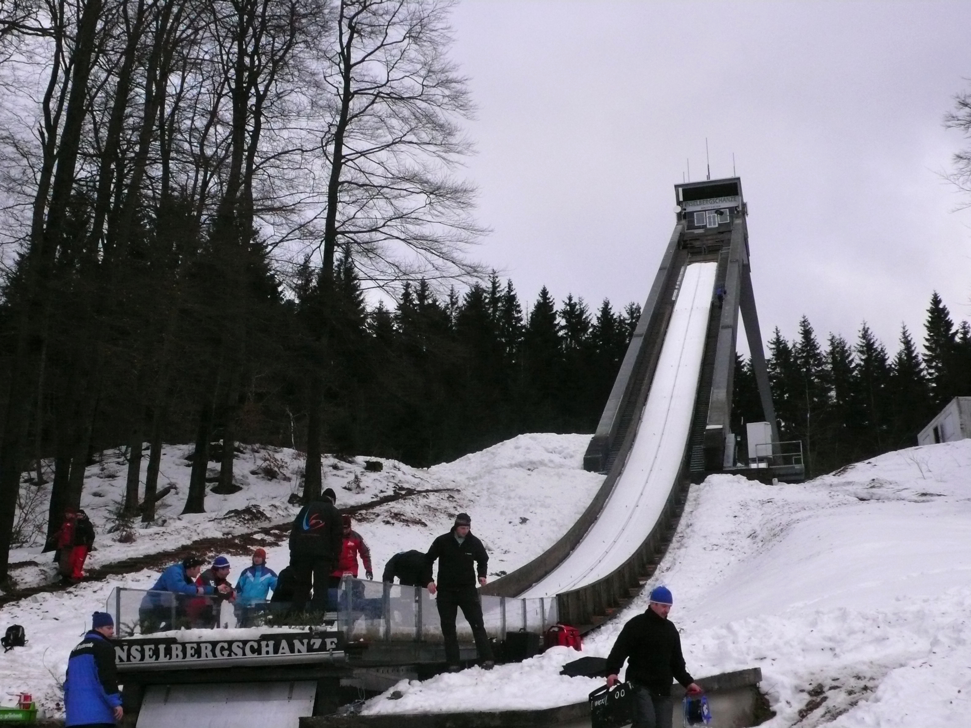 The jumping hill of "Inselbergschanze", in Brotterode